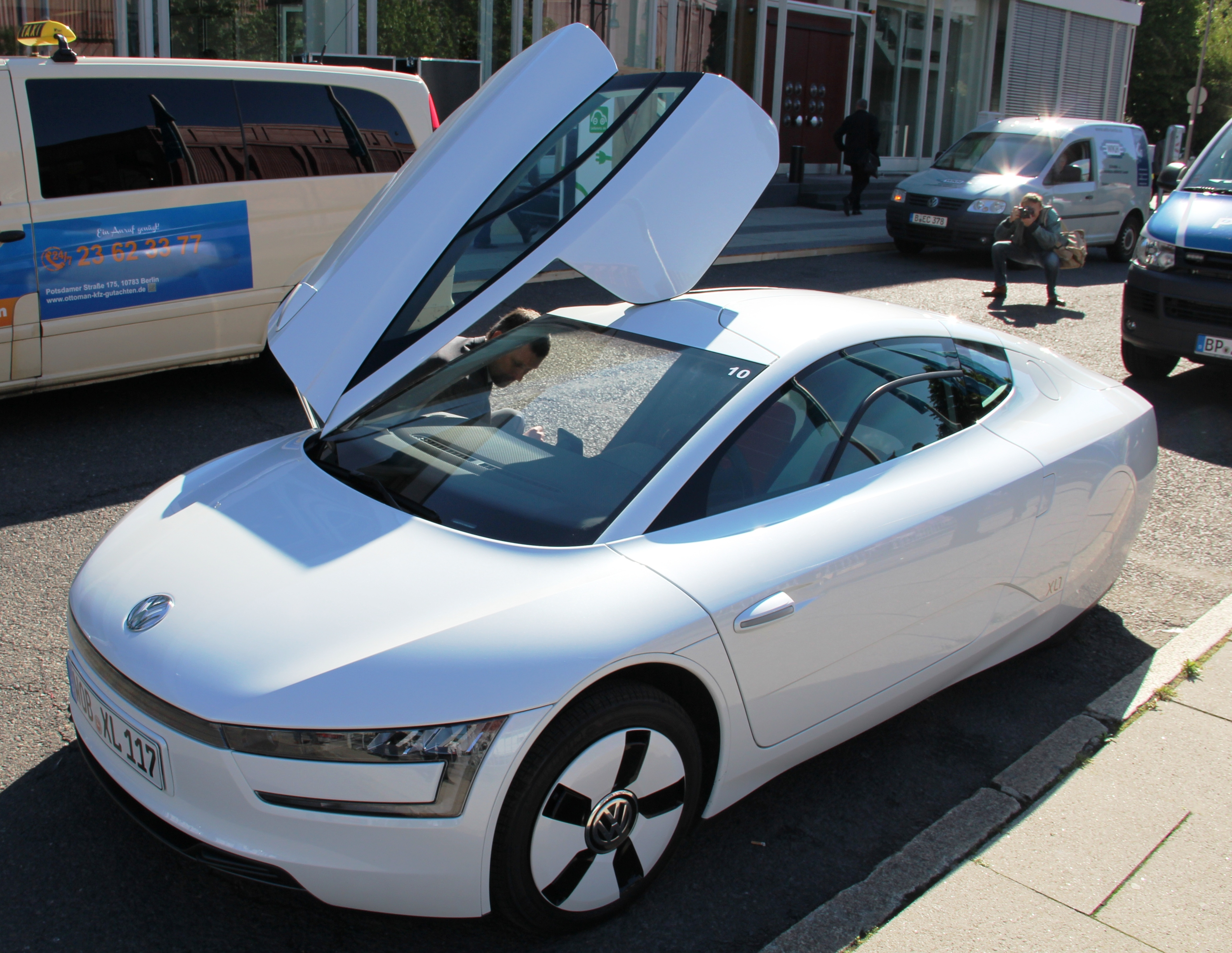 Volkswagen XL driver side view